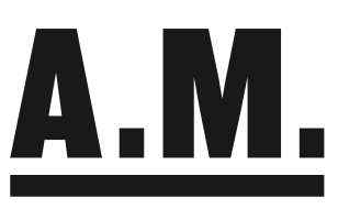 Logo Architekturmuseum TUM